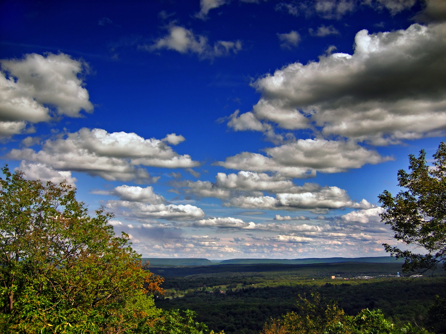 Southeast view from Mount Pocono, Pennsylvania